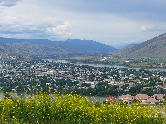 View of Kamloops, BC taken near Hwy 1 in the Aberdeen district. The Halston Overpass spanning the North Thompson River can be seen mid-photo.